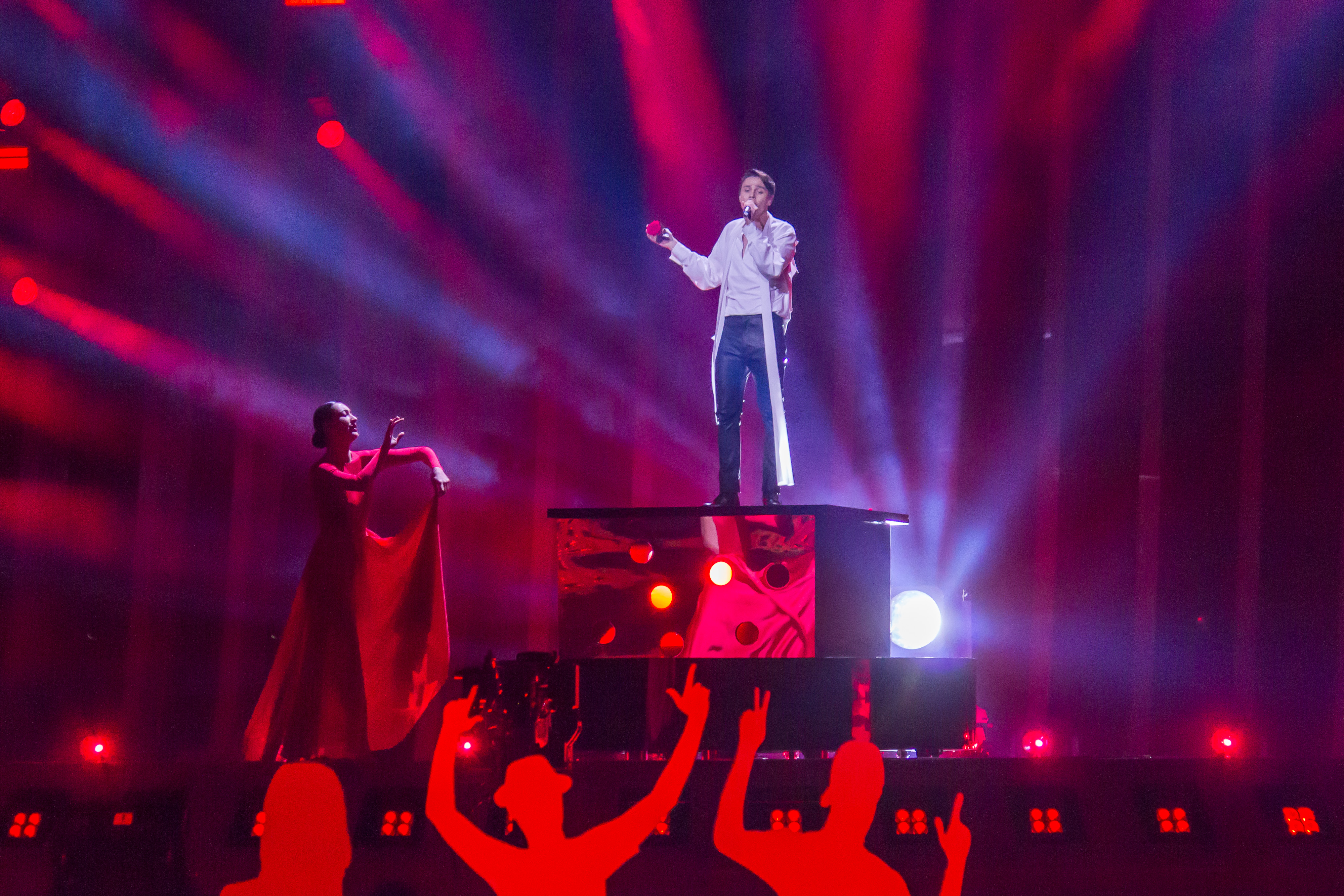 ALEKSEEV representing Belarus with the song "Forever" during a rehearsal before the first semi final of the Eurovision Song Contest 2018 in Lisbon.